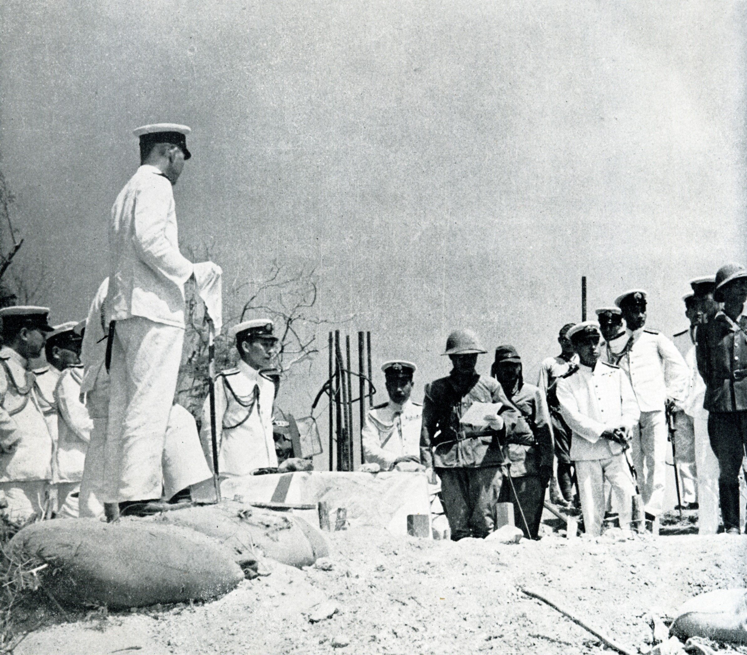 高松宮宣仁親王 or Takamatsunomiya Nobuhito, known as Prince Takamatsu, Nobuhito, Prince Takamatsu. The person in white uniform, on the rock.